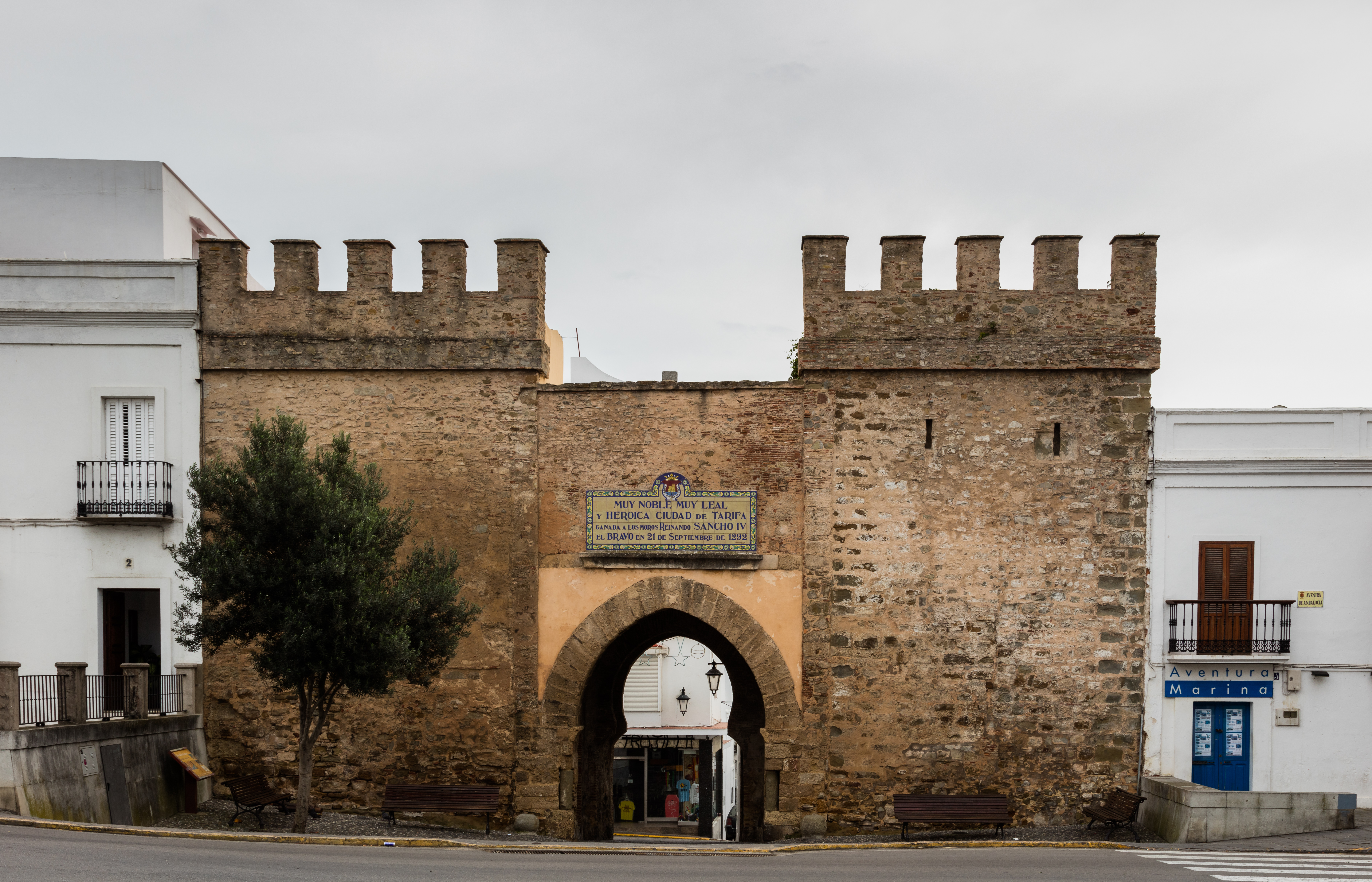 Gate of Jerez, Tarifa, province of Cádiz, Andalusia, Spain.